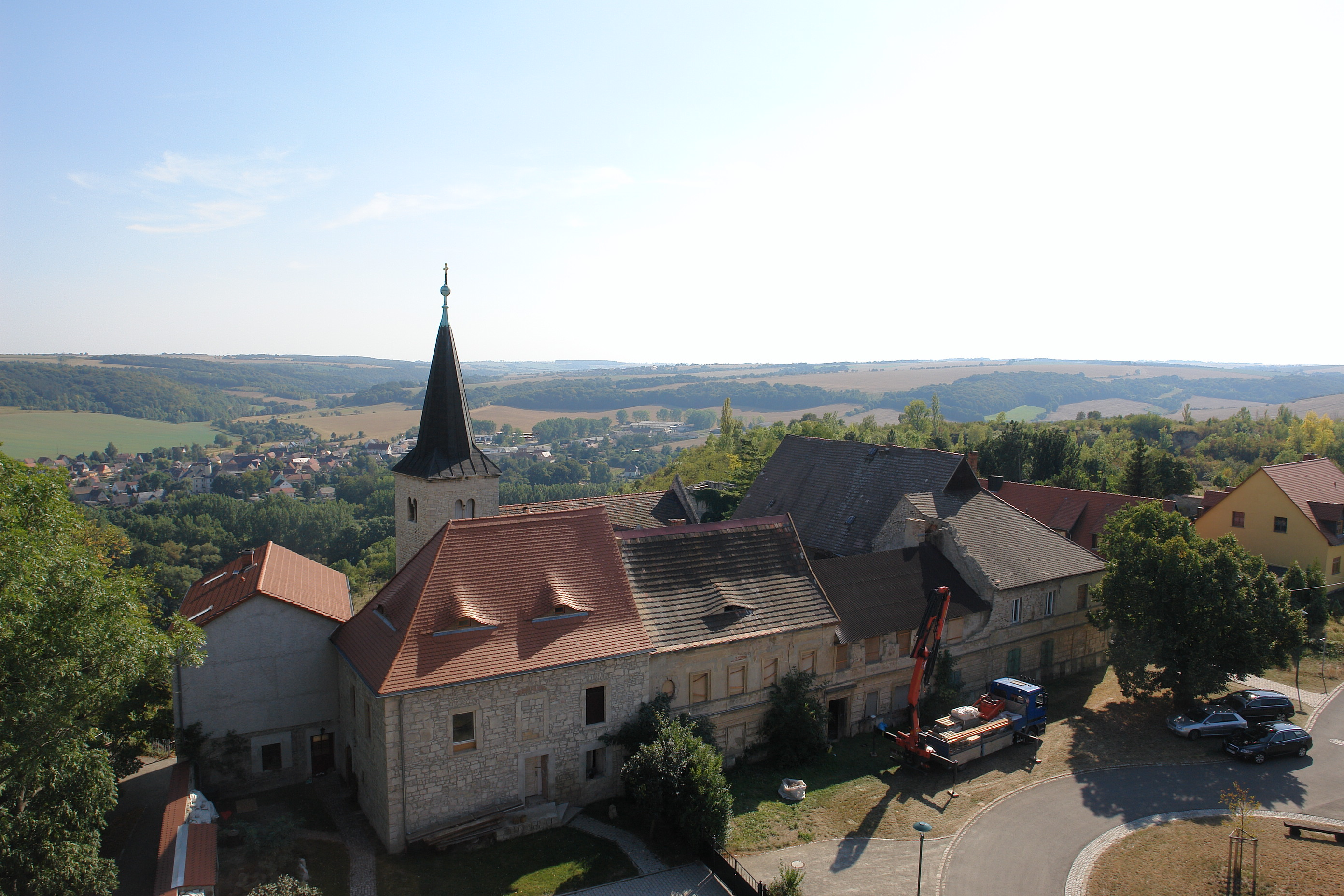 View of Rittergut Zscheiplitz